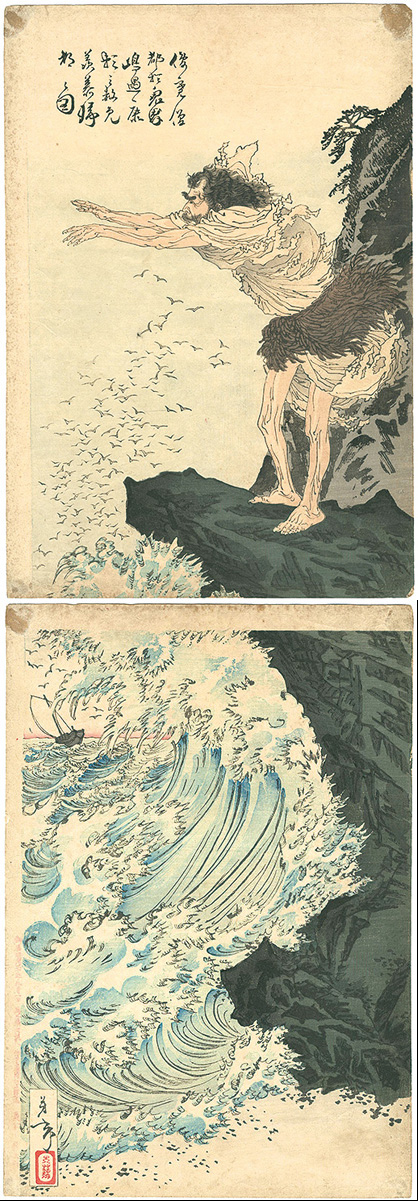 Shunkan Watching Enviously from Kikai Island as Yasuyori Returns to the Capitol after Being Unexpectedly Pardoned